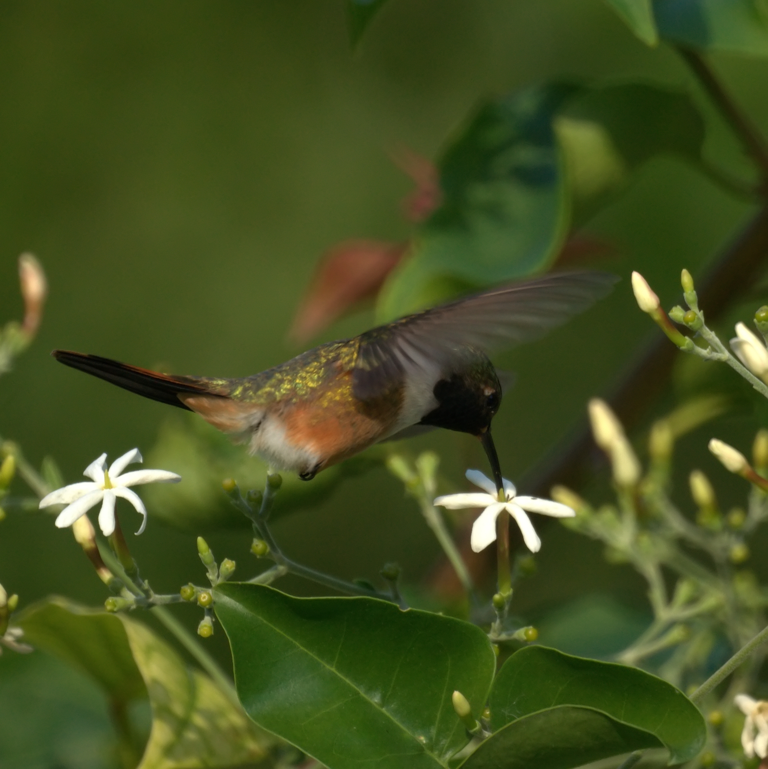 Calliphlox evelynae